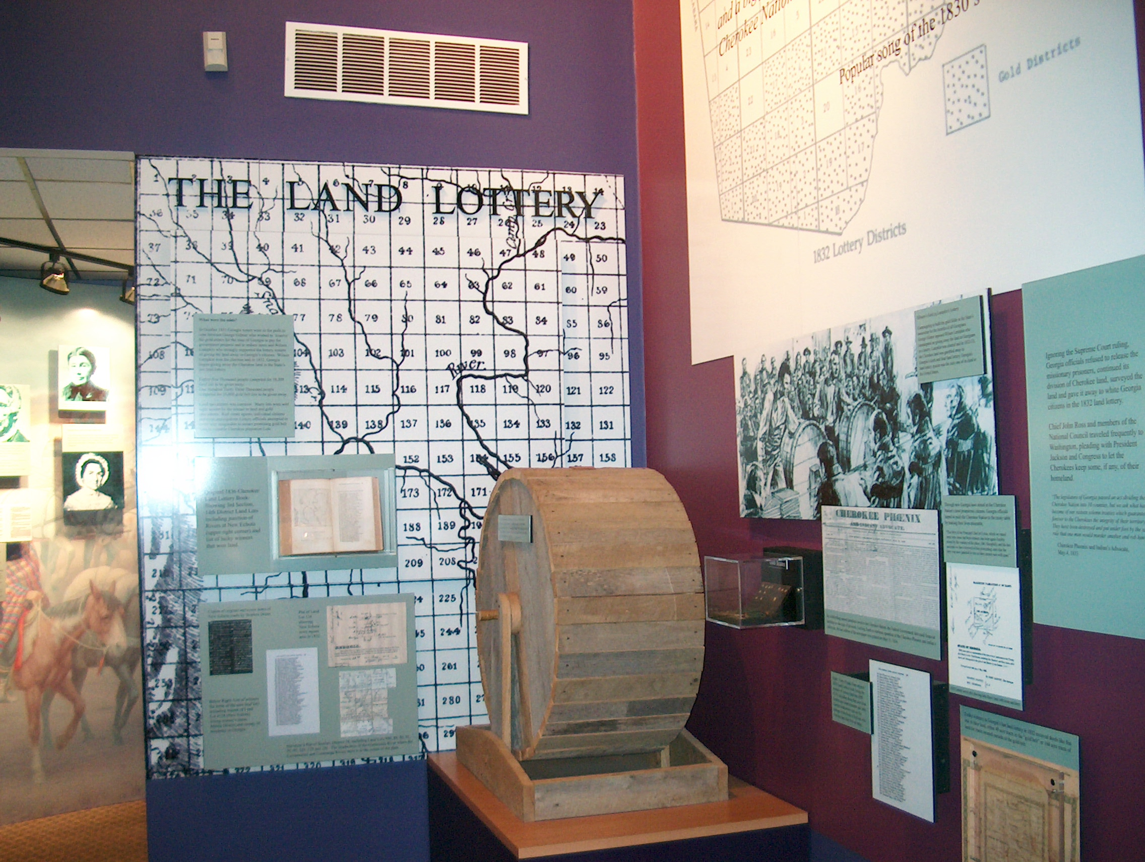 The picture was taken by Cculber007 at New Echota on June 24, 2006. Wheel, original book, displays, and others has described about Land Lottery.